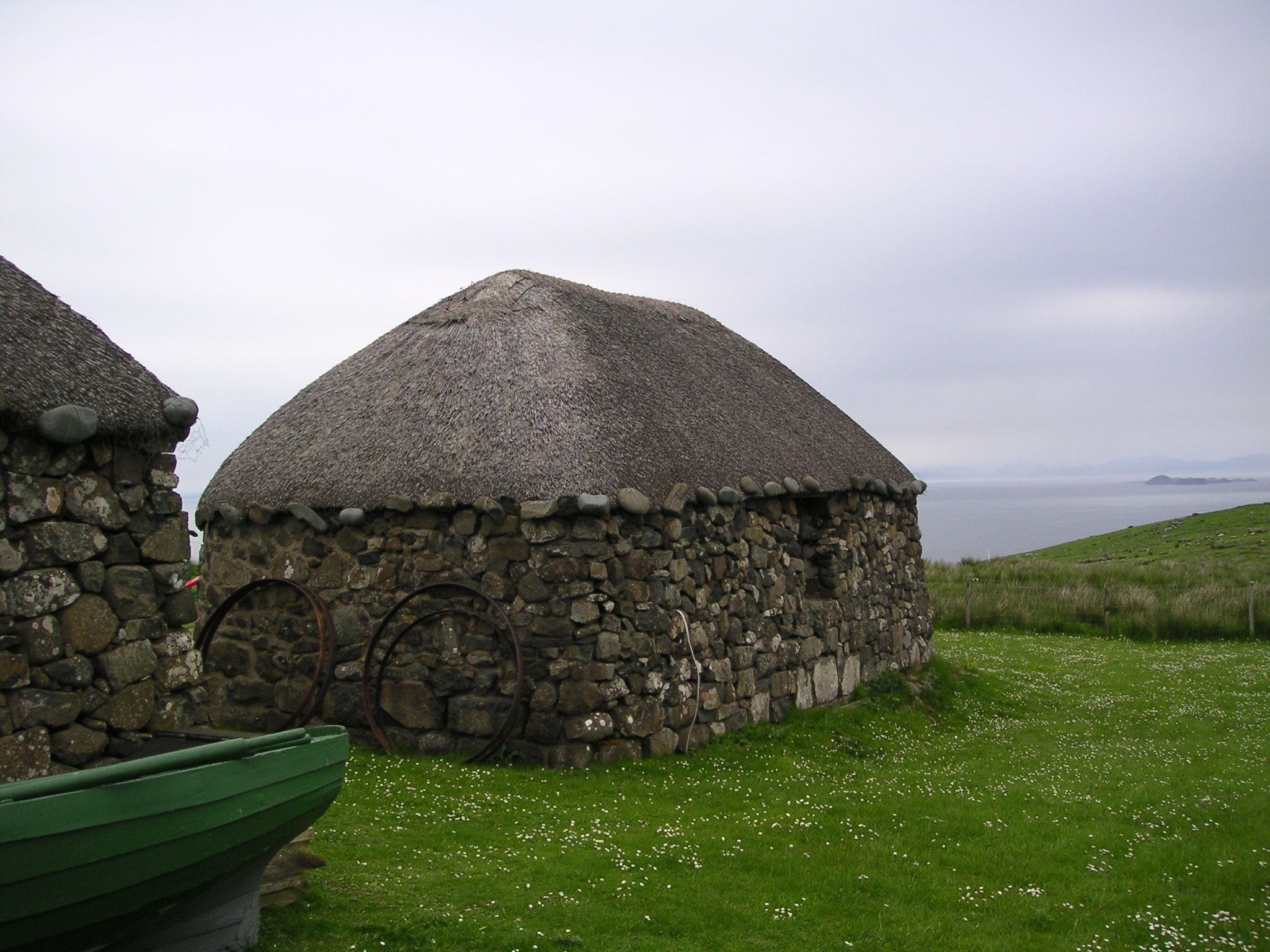 Black house in Trotternish, Skye, Scotland Author: Wojsyl, June 2004